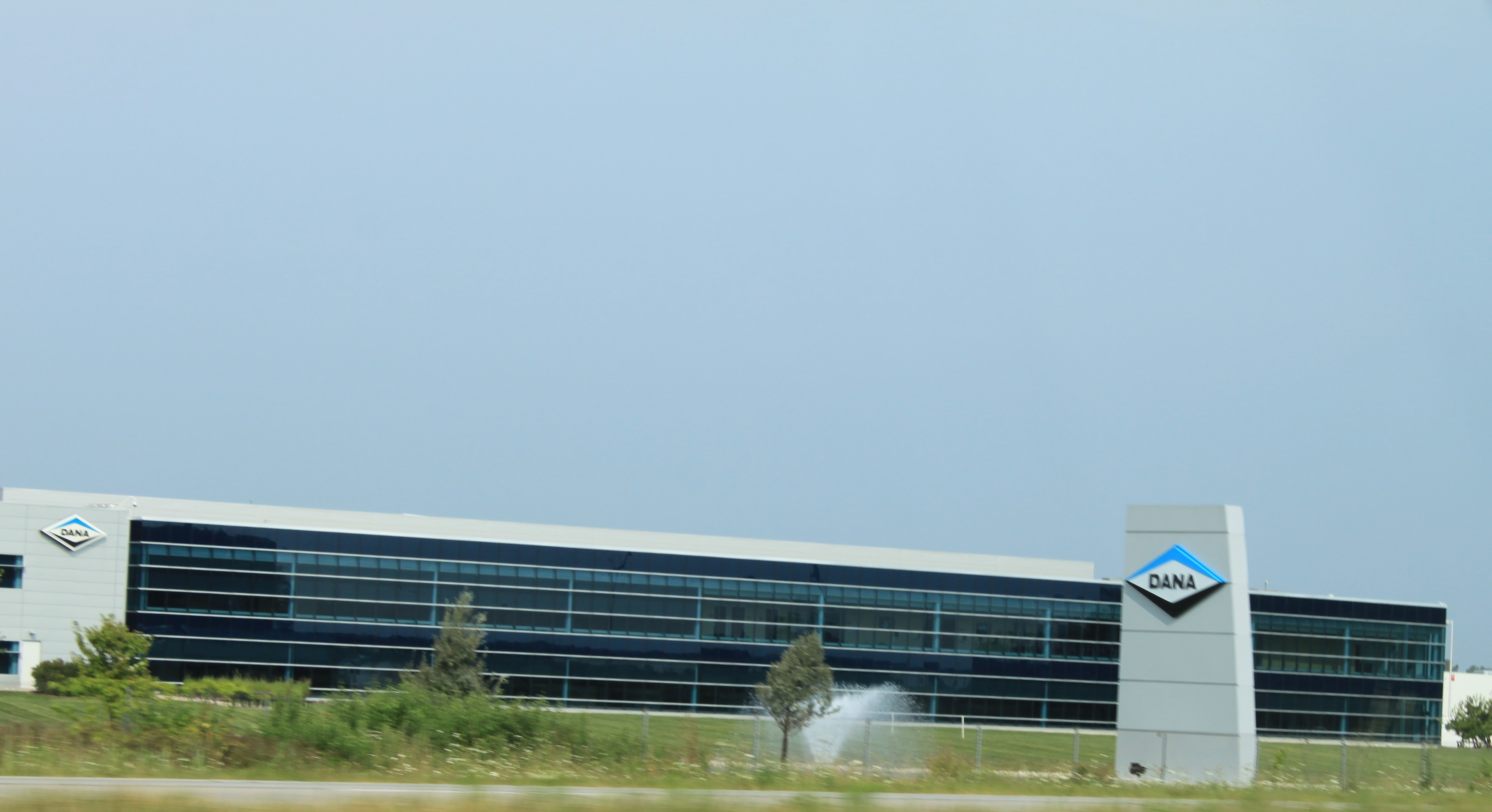 Dana corporate headquarters, Maumee, Ohio, seen from Interstate 475.